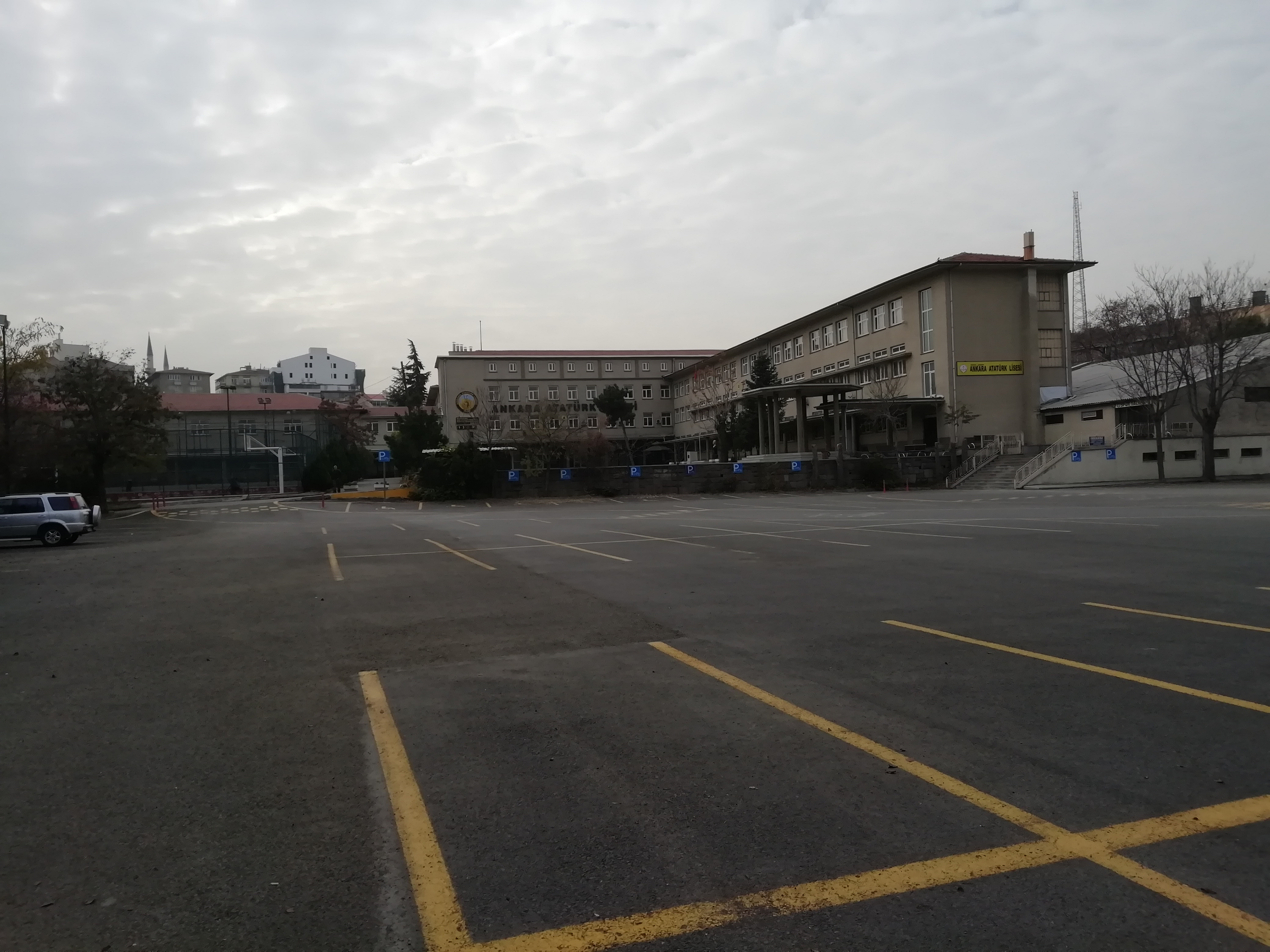 Highschool